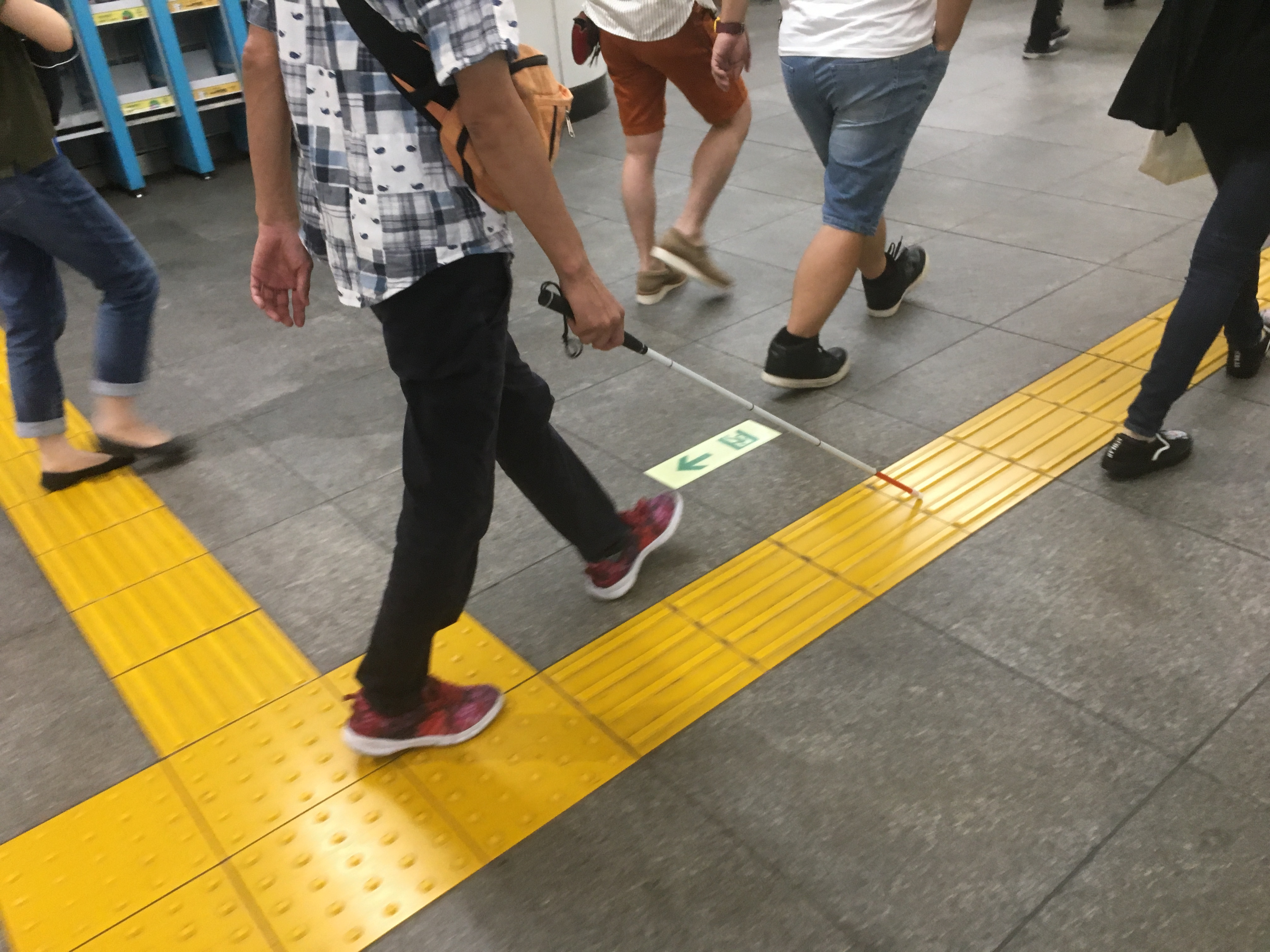 白杖と点字ブロック (white cane and Braille blocks)